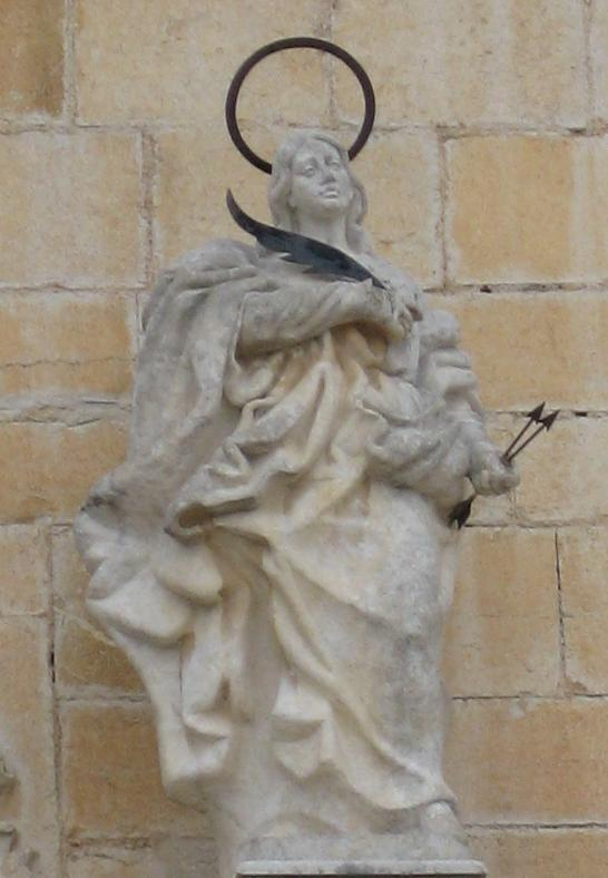 Saint Victoria martyr. Statue in the front of the church of St. John the Baptist, Alcalà de Xivert (Spain)